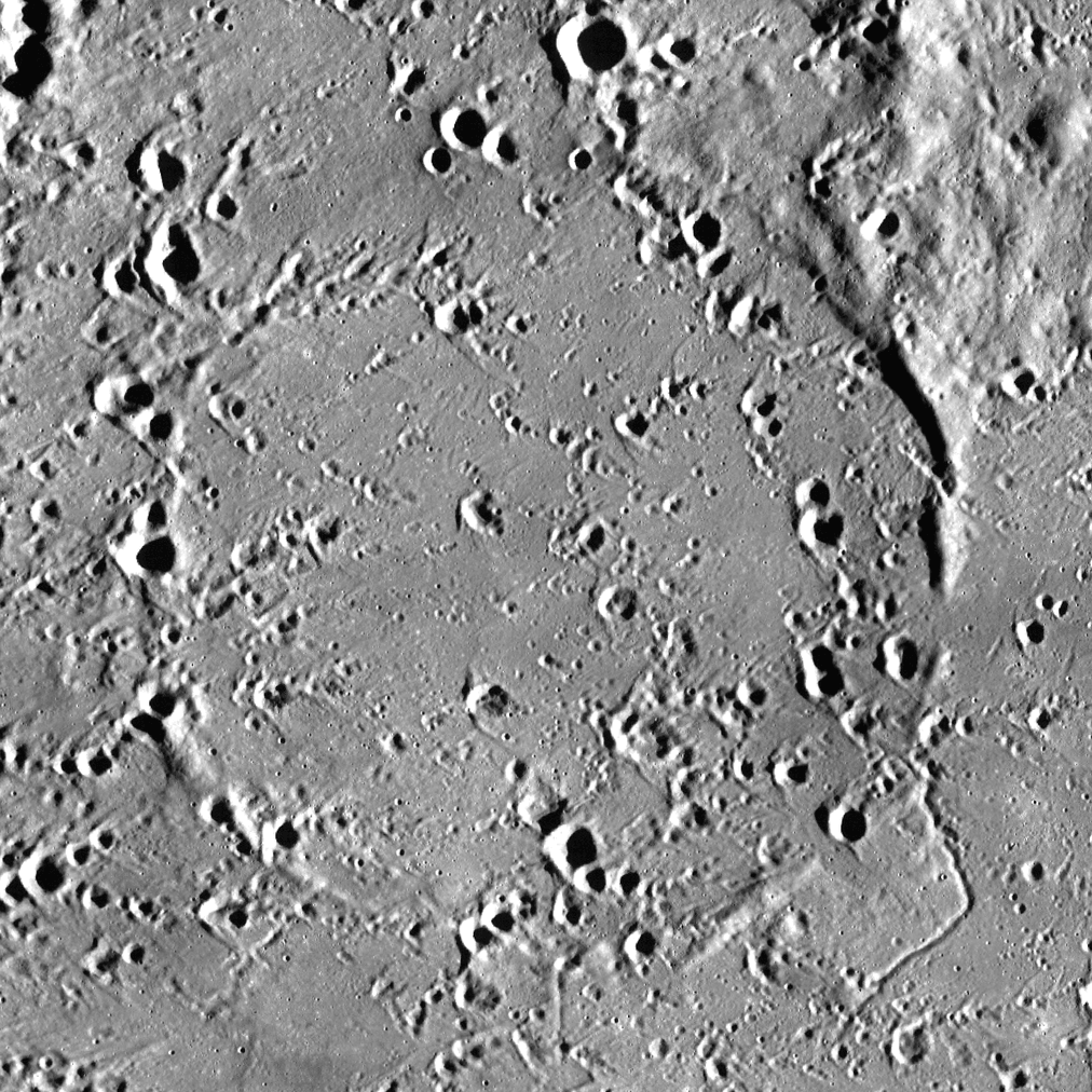 Crater Stadius on the Moon. Mosaic of photos by Lunar Reconnaissance Orbiter, made with Wide Angle Camera. Size of the image is 90×90 km, north is up.